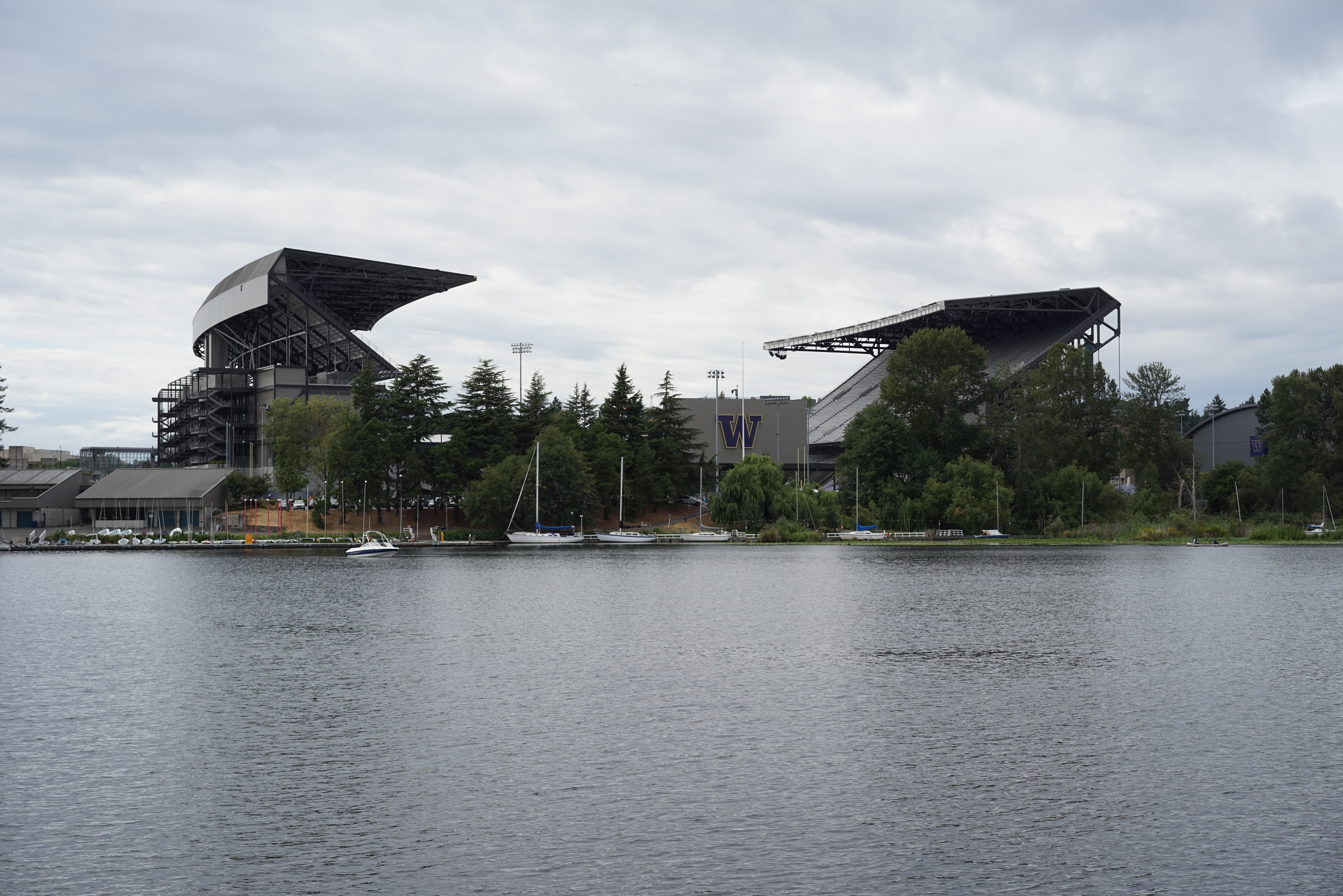 View of Husky Stadium of the University of Washington from Lake Washington.